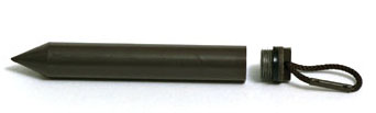 Dead drop spike. A concealment device which has been used since the late 1960s to hide money, maps, documents, microfilm, and other items. The spike is waterproof and mildew-proof and can be shoved into the ground or placed in a shallow stream to be retrieved at a later time.